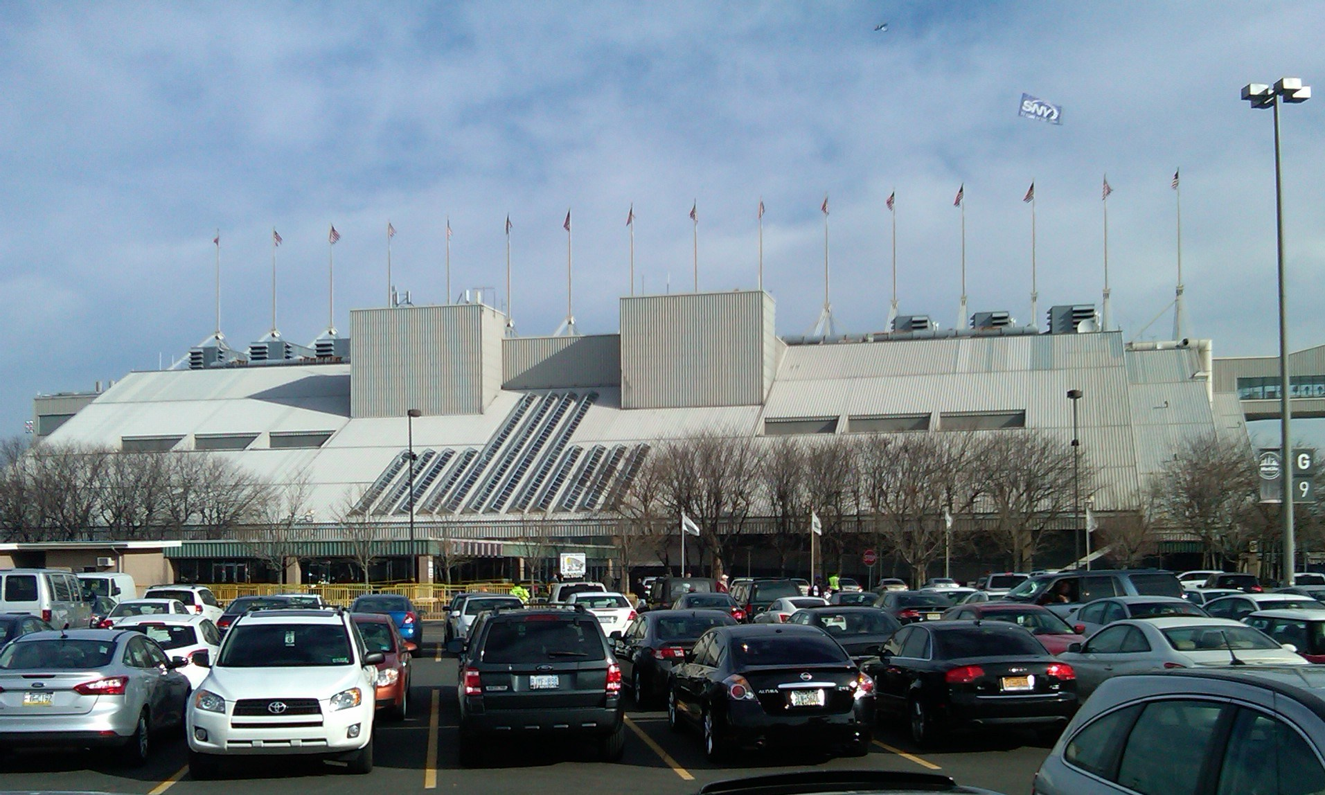 View of Meadowlands Racetrack from Lot G